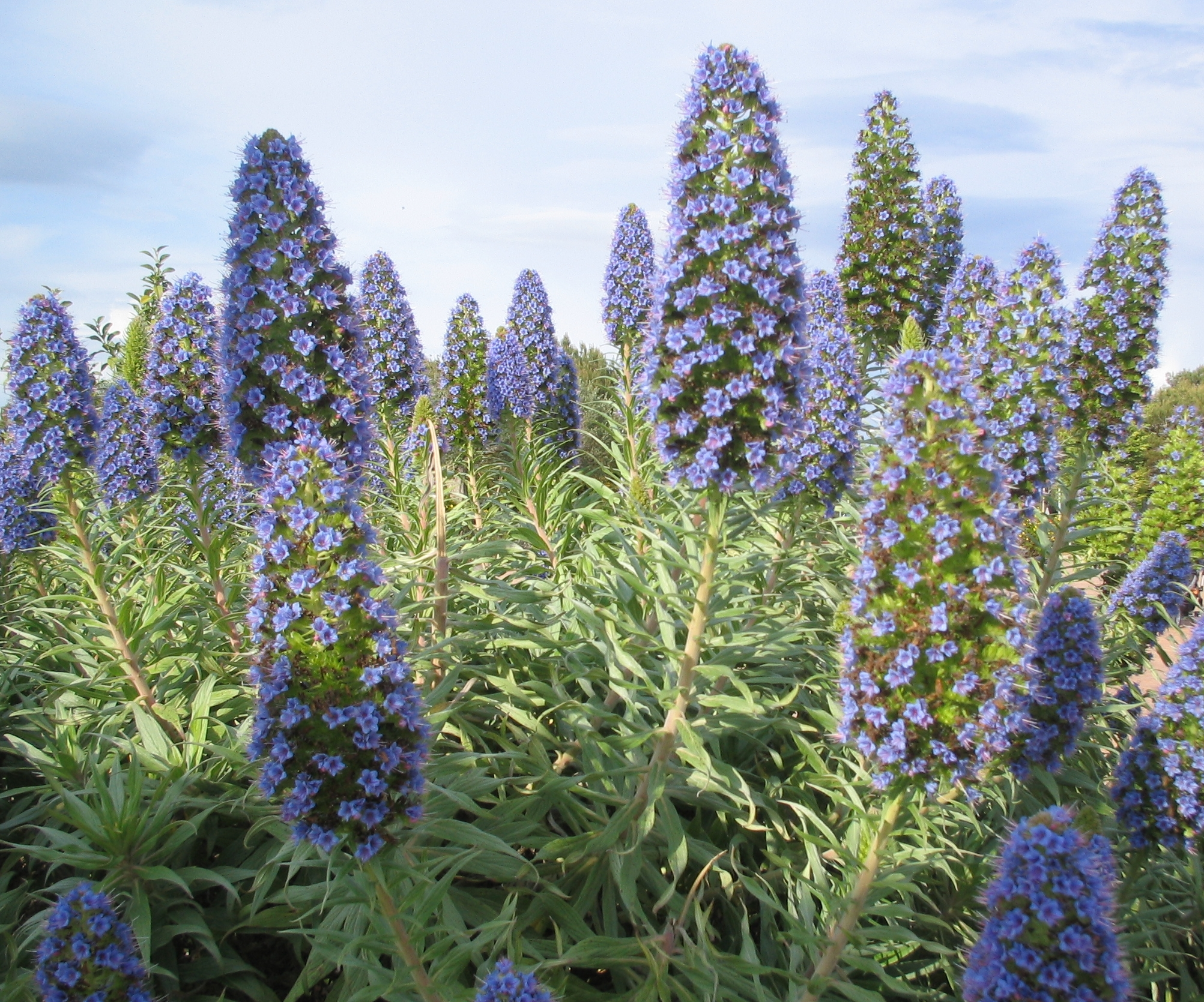 Flowers